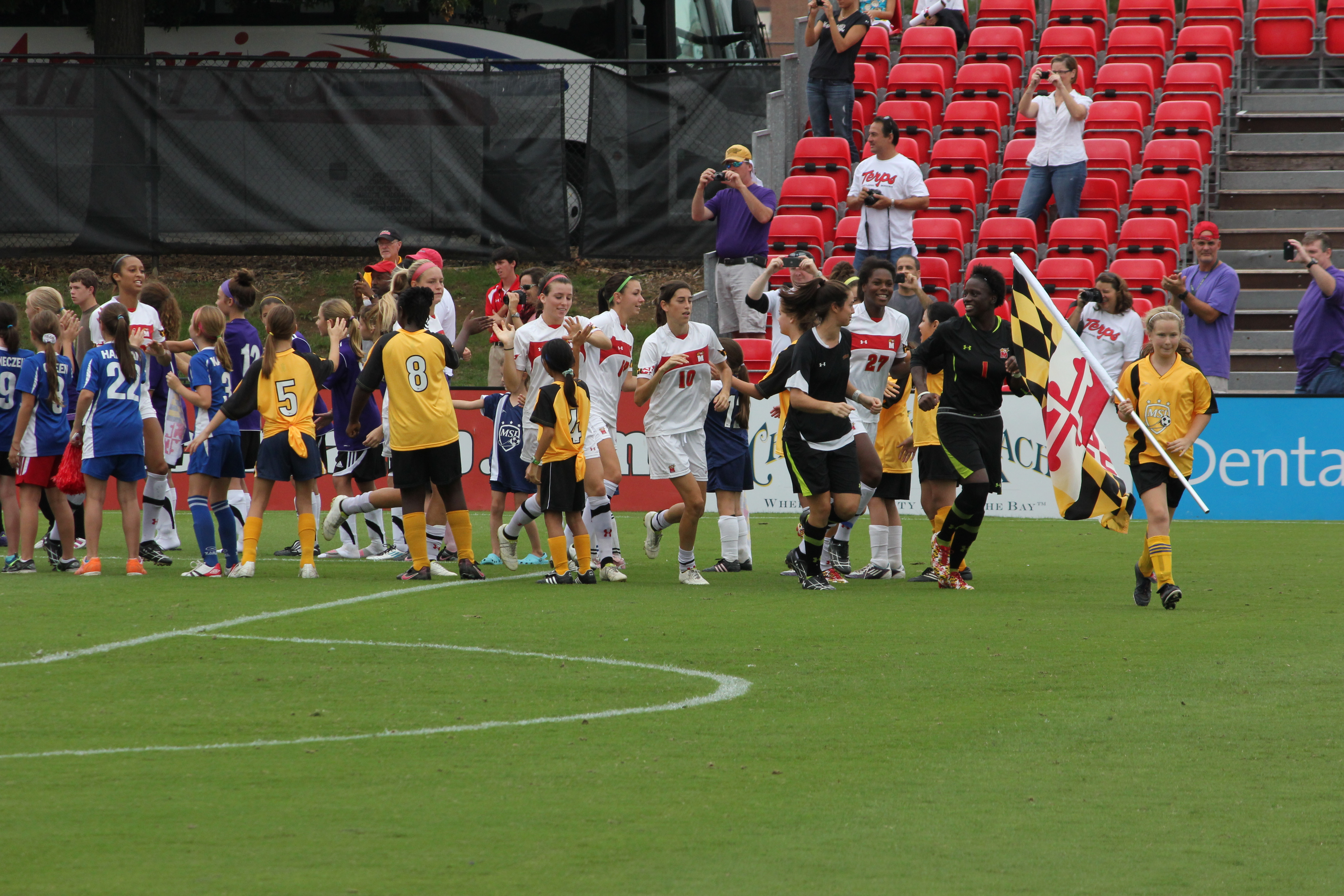 Our girls carried the flag before the game.